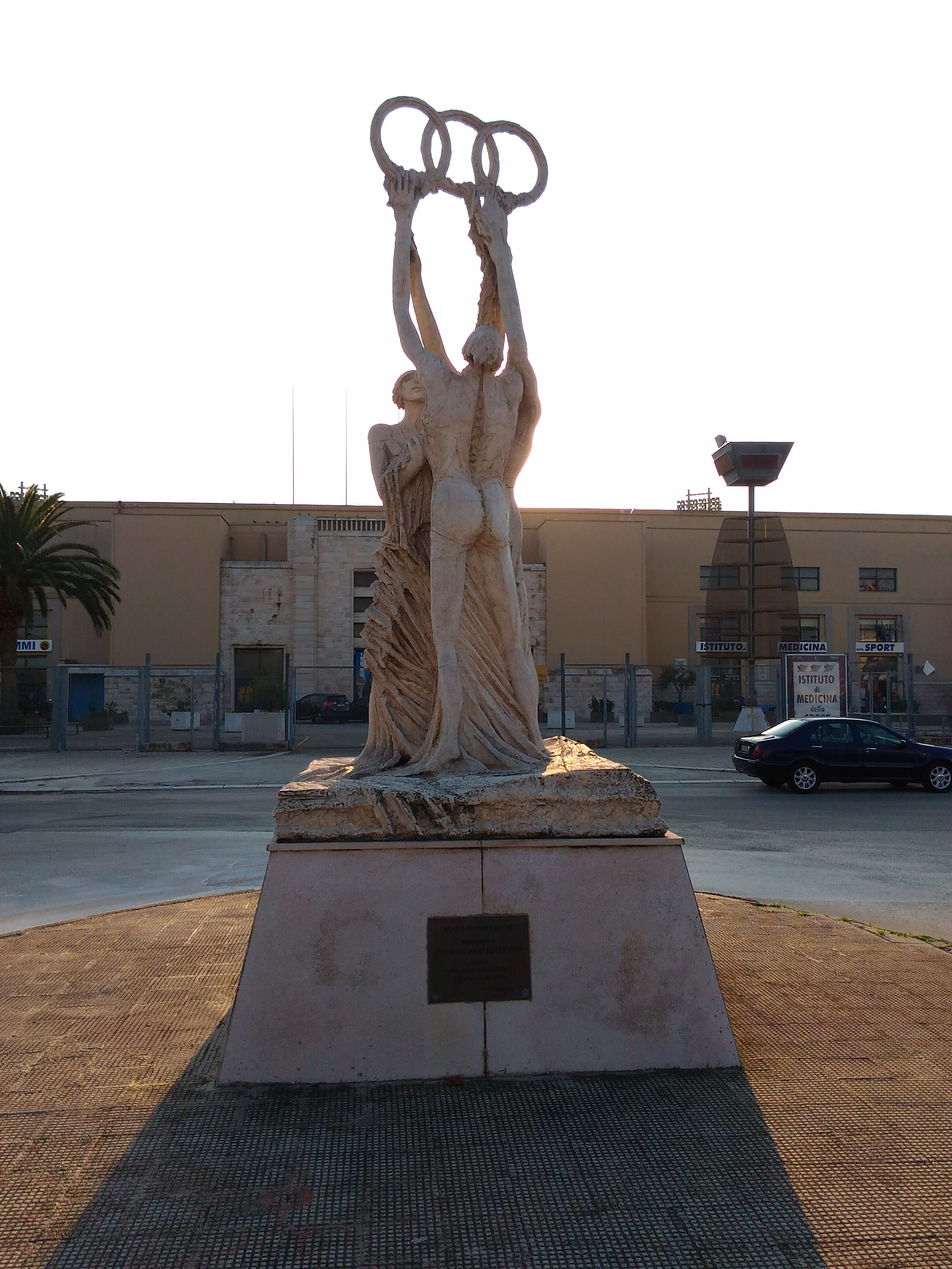 Sculpture created by the Pugliese artist Cosimo Giuliano, placed on via di Maratona on the occasion of the XIII Mediterranean Games.